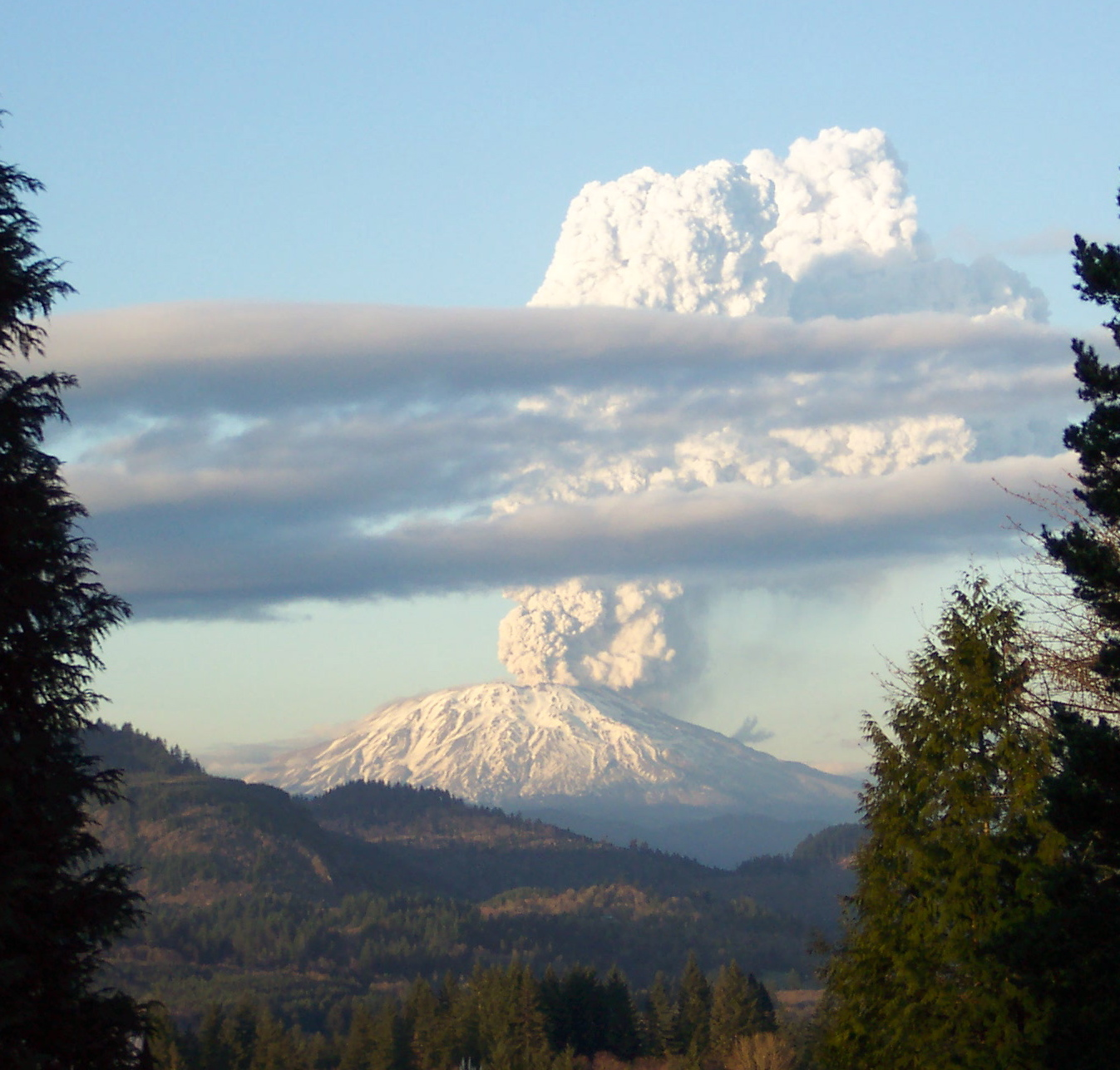 Photo of the south face of Mt St Helens during the eruption of March 8, 2005. Taken from Amboy, WA. Author: Matt Kennedy.